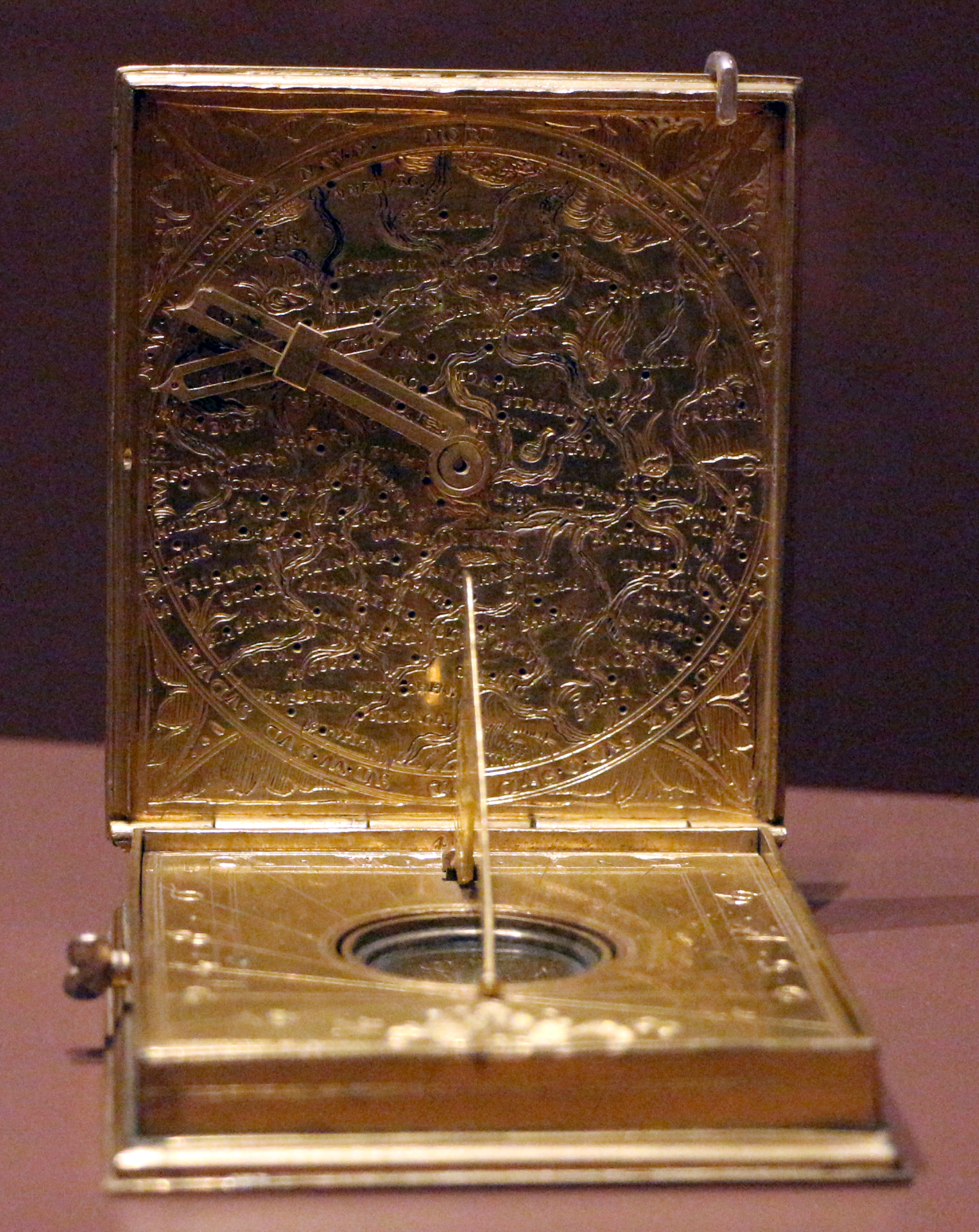 Metalware in the Milwaukee Art Museum